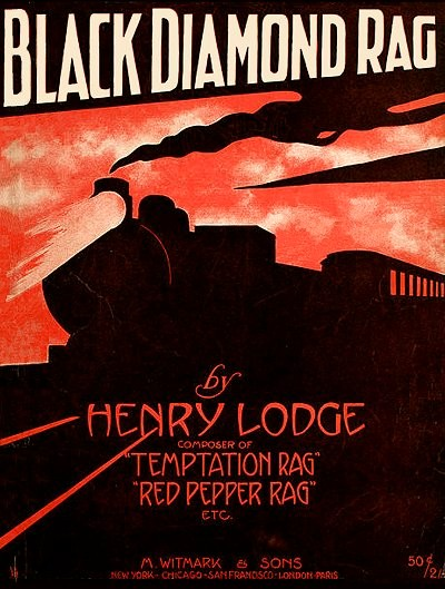 Black Diamond Rag, 1912